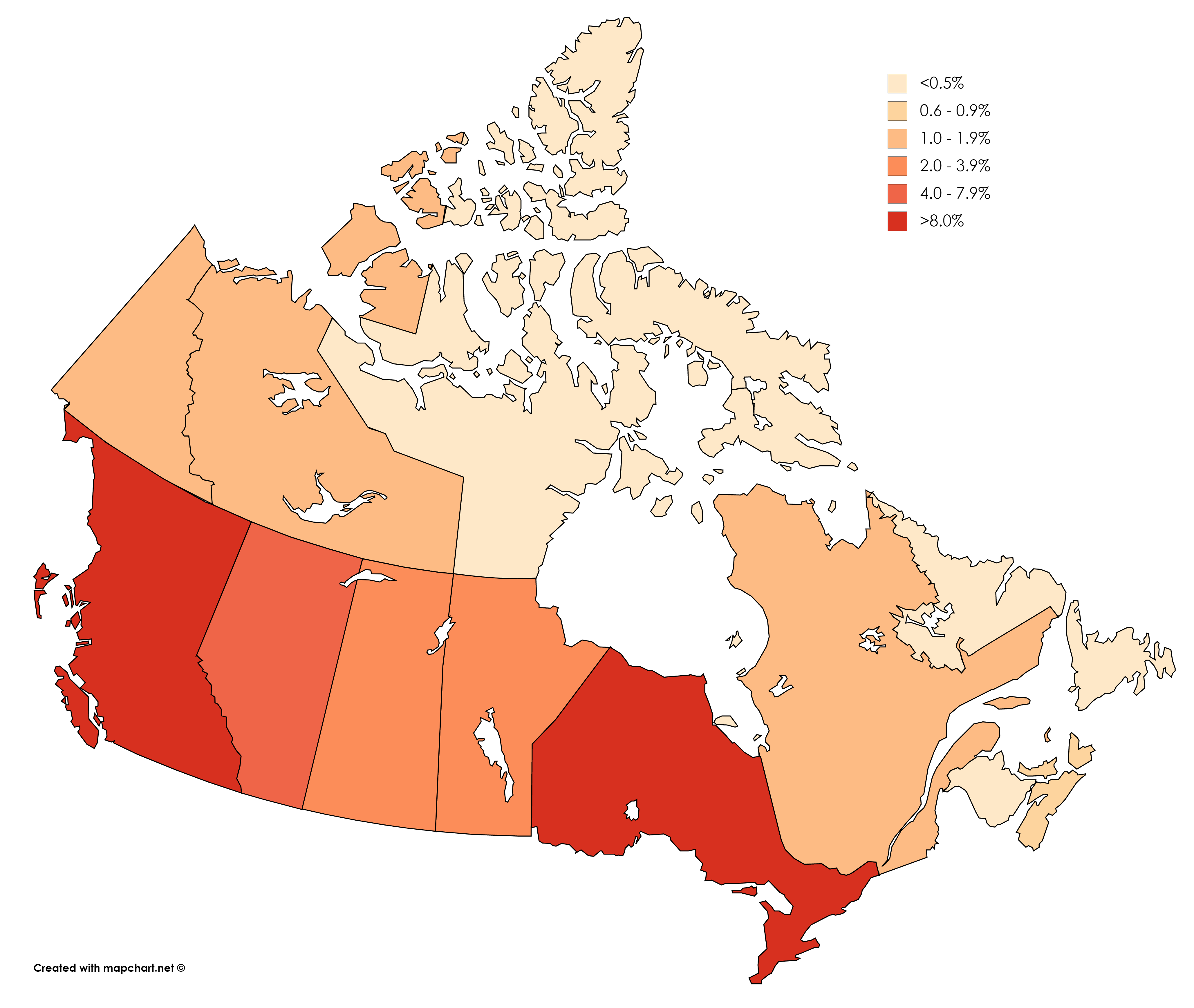 Population distribution of South Asian Canadians by % of total population by province/territory, 2016 census